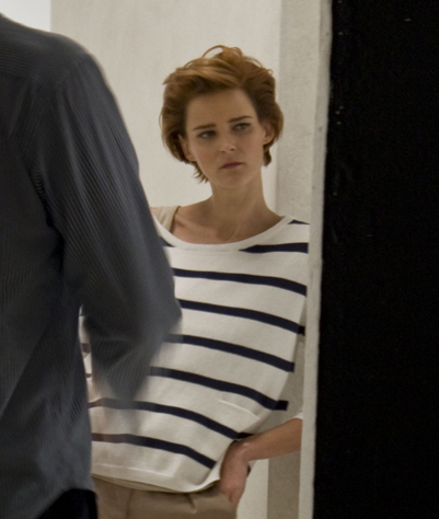 Carmen Kass during a Lindex photoshoot, in 2010.